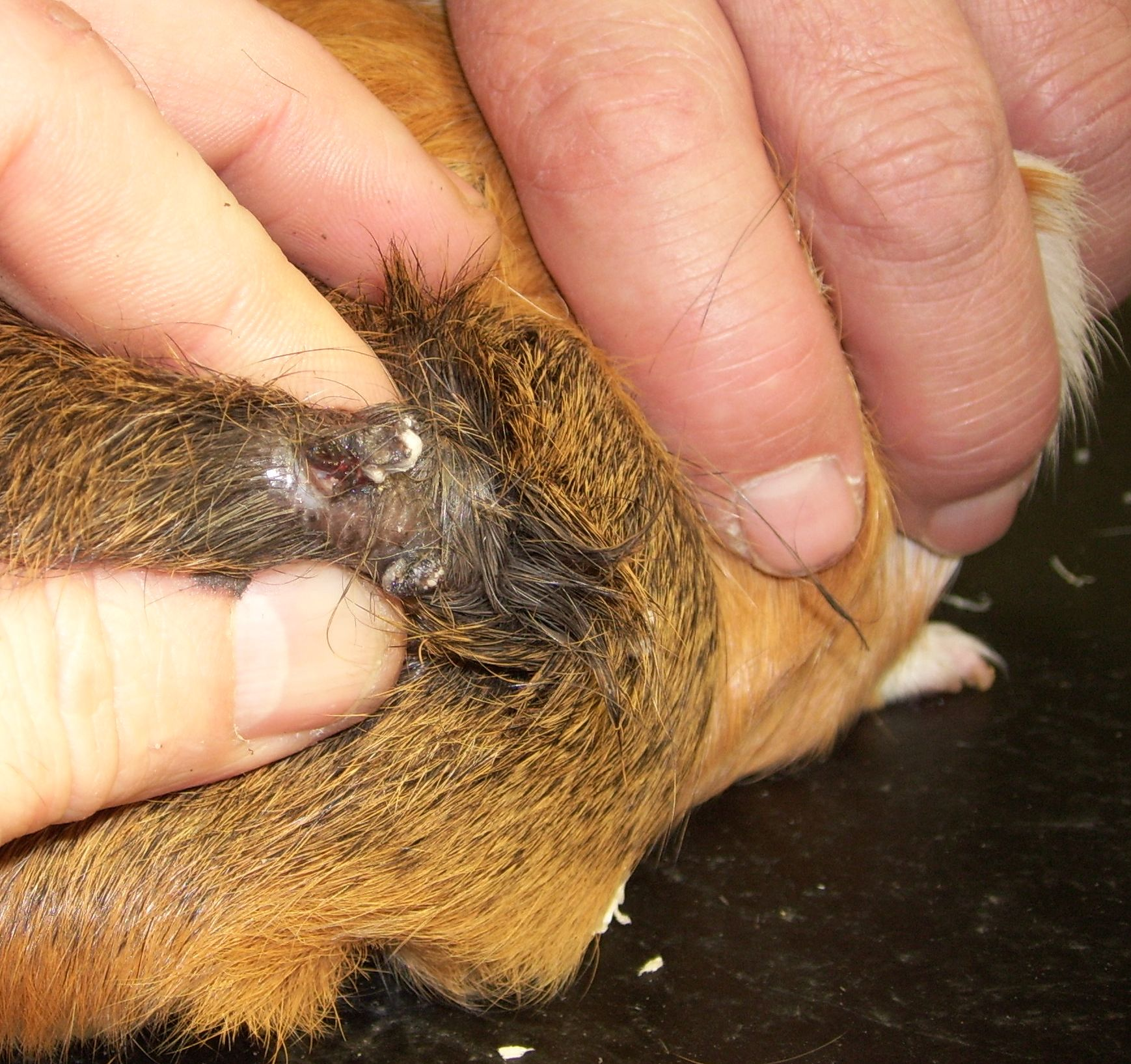 Atherom in a guinea pig